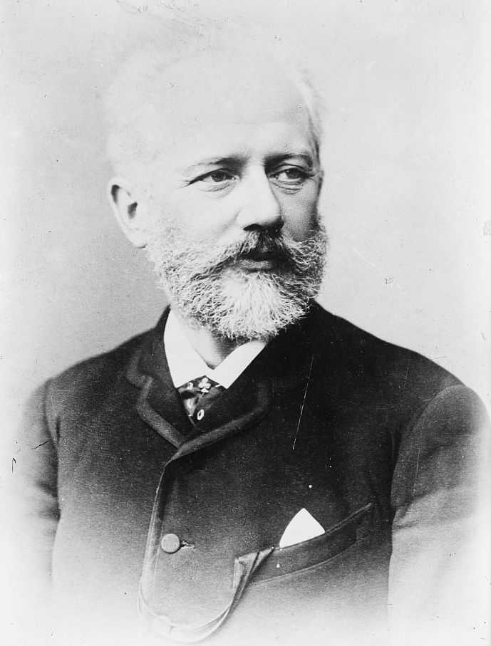 Pyotr Ilyich Tchaikovsky. Russian composer of the Romantic era